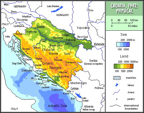 Physical map of Croatia, 1941-1943